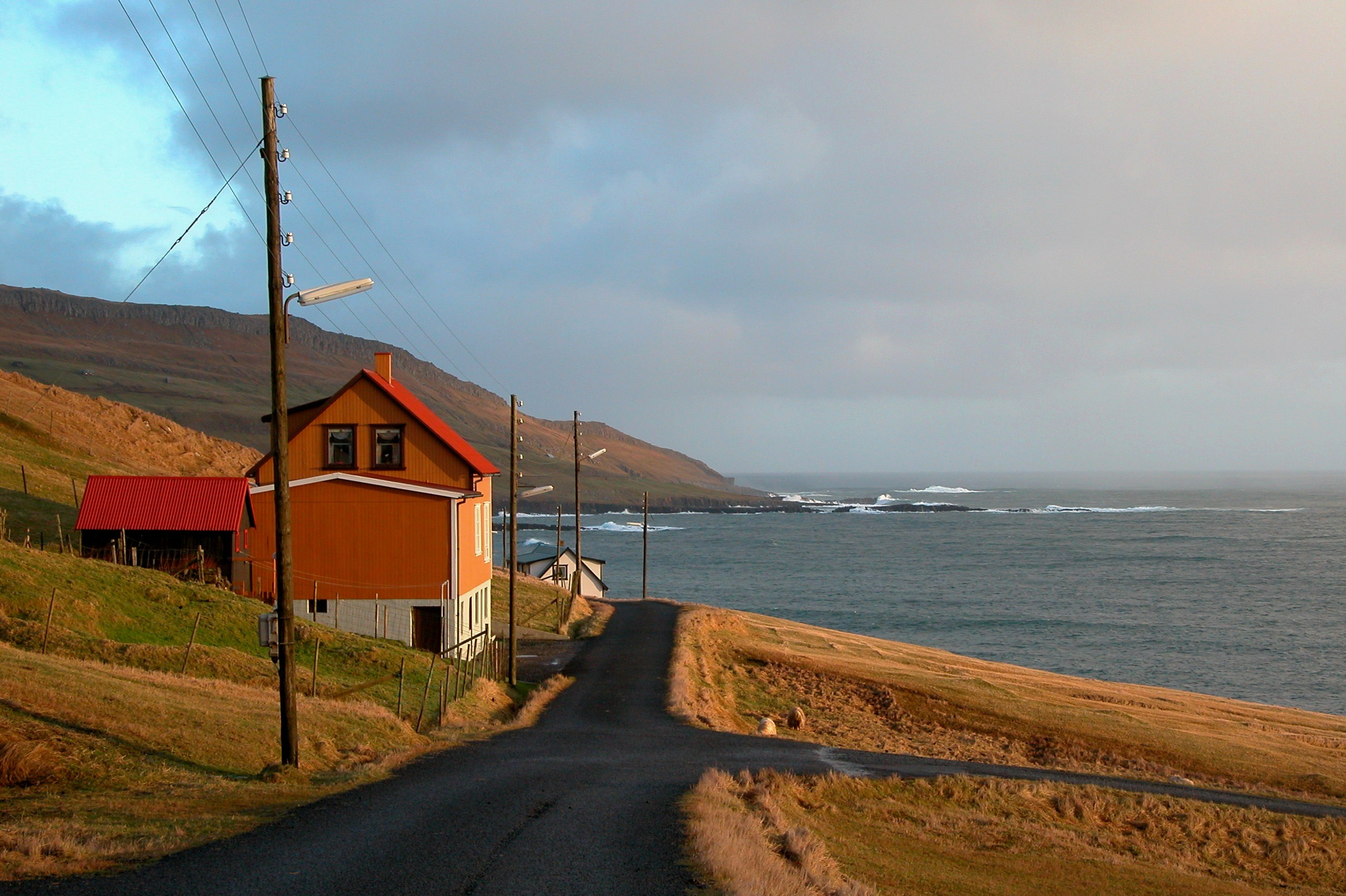 Nes (Danish: Næs) is a village on the Faroese island of Suðuroy located in the municipality of Vágur (Vágs kommuna). It is located west of Porkeri and east of Vágur.Nes, Vágur, Suðuroy, Faroe Islands